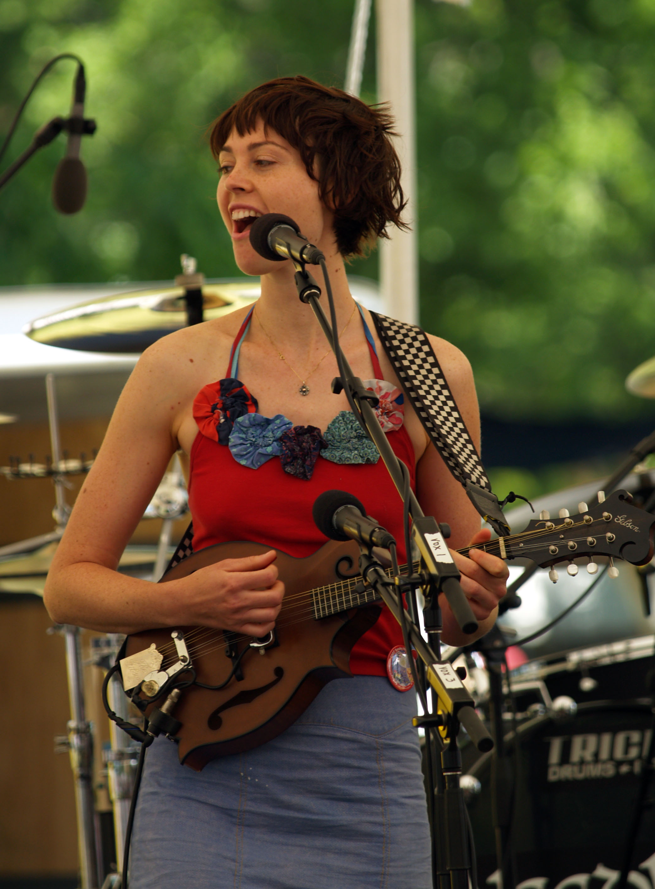 Musician Amanda Barrett of The Ditty Bops performing at the 2007 Smoky Hill River Festival.